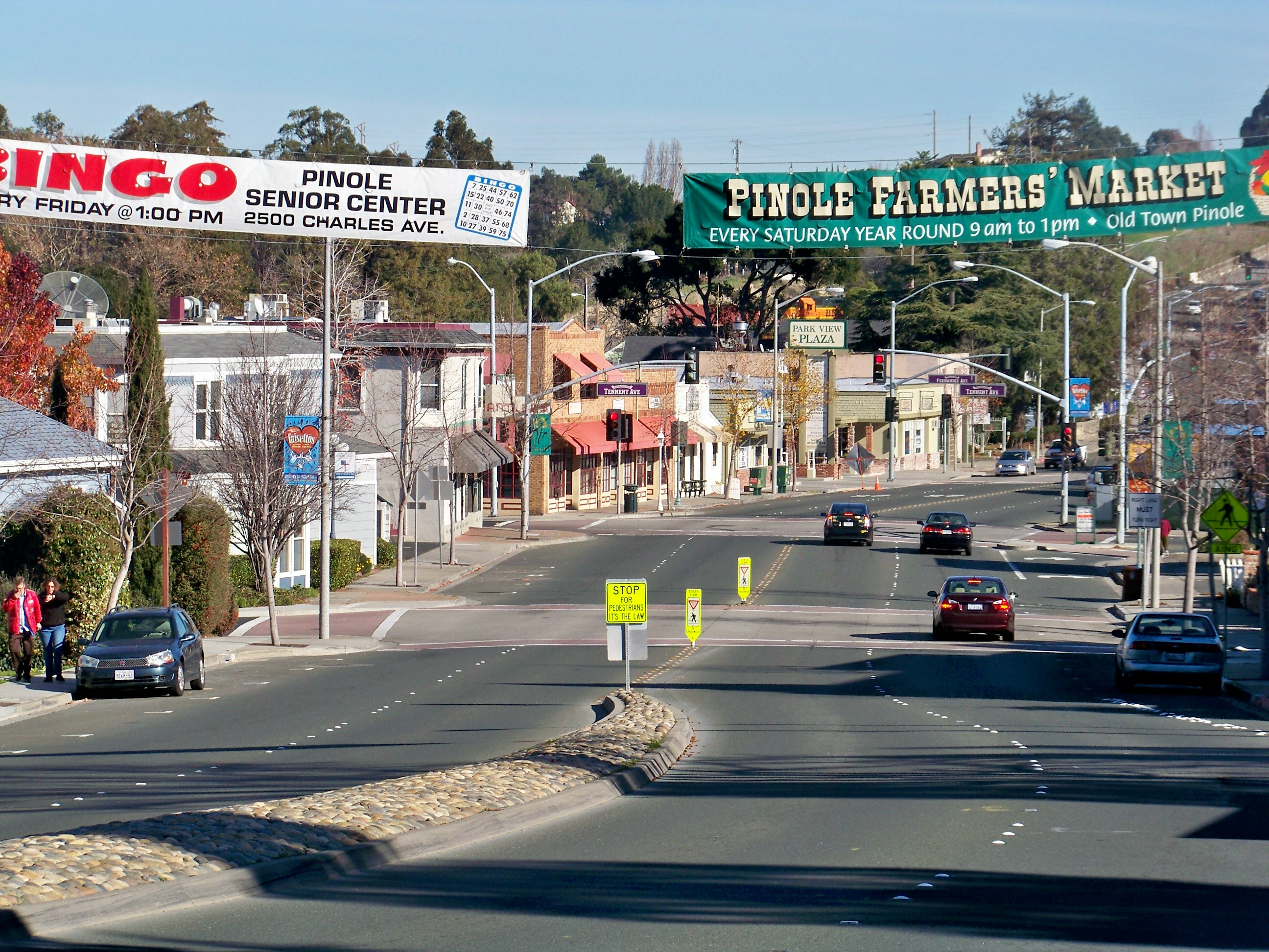 San Pablo Avenue going north in Pinole, California